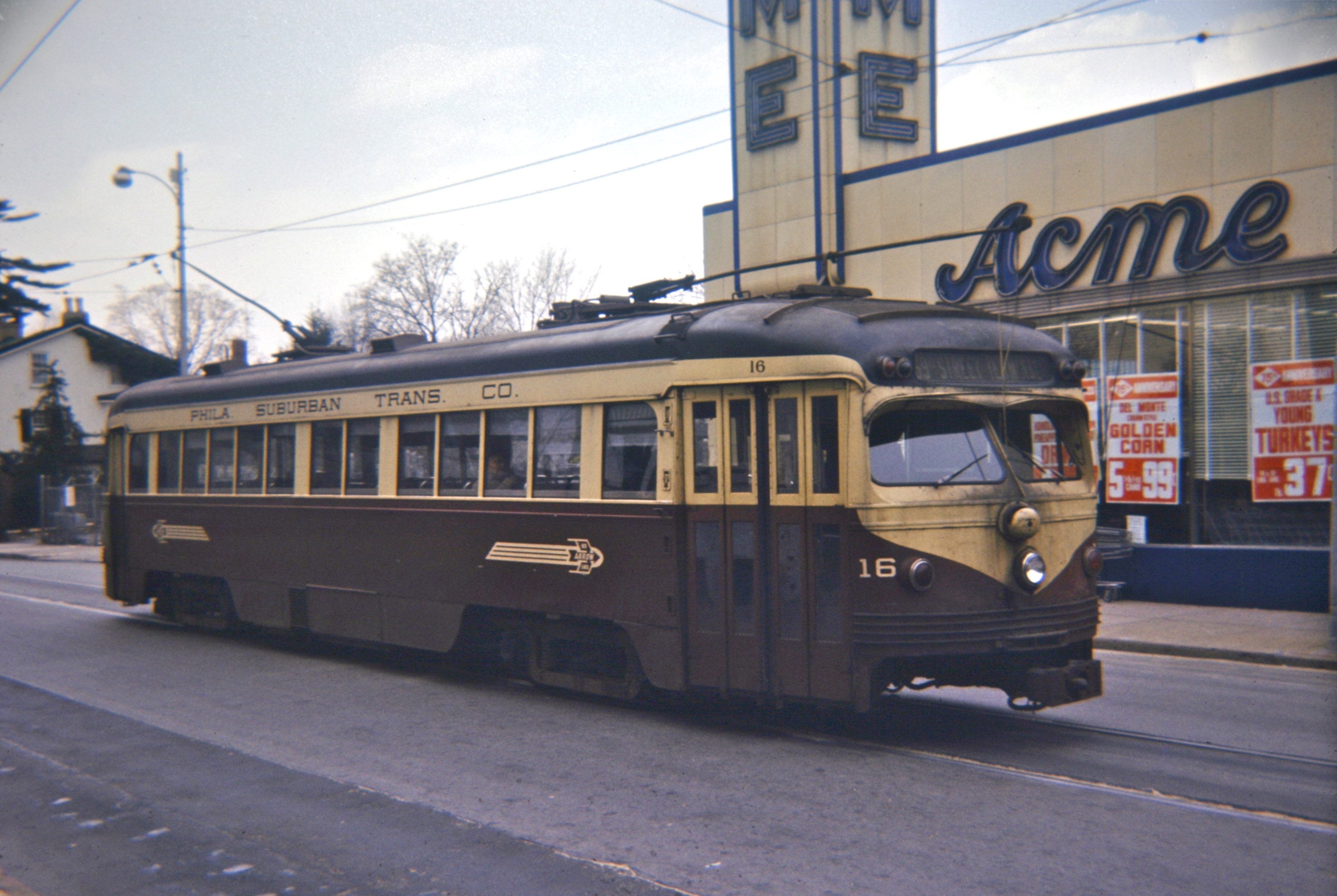 Philadelphia Suburban Transportation Co. (Red Arrow) PCC car No. 16 on State Street just west of Orange Street in Media, Pennsylvania, in 1966. This is at - or just a few yards east of - the end of the line for what is now SEPTA route 101. Car 16 was starting (or about to start) an inbound trip, to the 69th Street Terminal. SEPTA took over the Philadelphia Suburban Transportation Company in January 1970. Car 16 was a double-ended PCC built by the St. Louis Car Company in 1949; it was retired in 1980. The last PCC cars on SEPTA's Red Arrow Division were retired in October 1982.